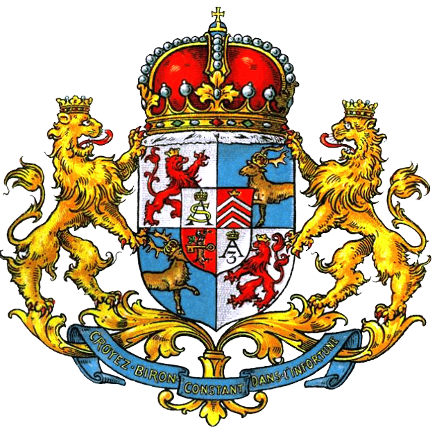 Coat of arms of duchy of Curland 1769-95